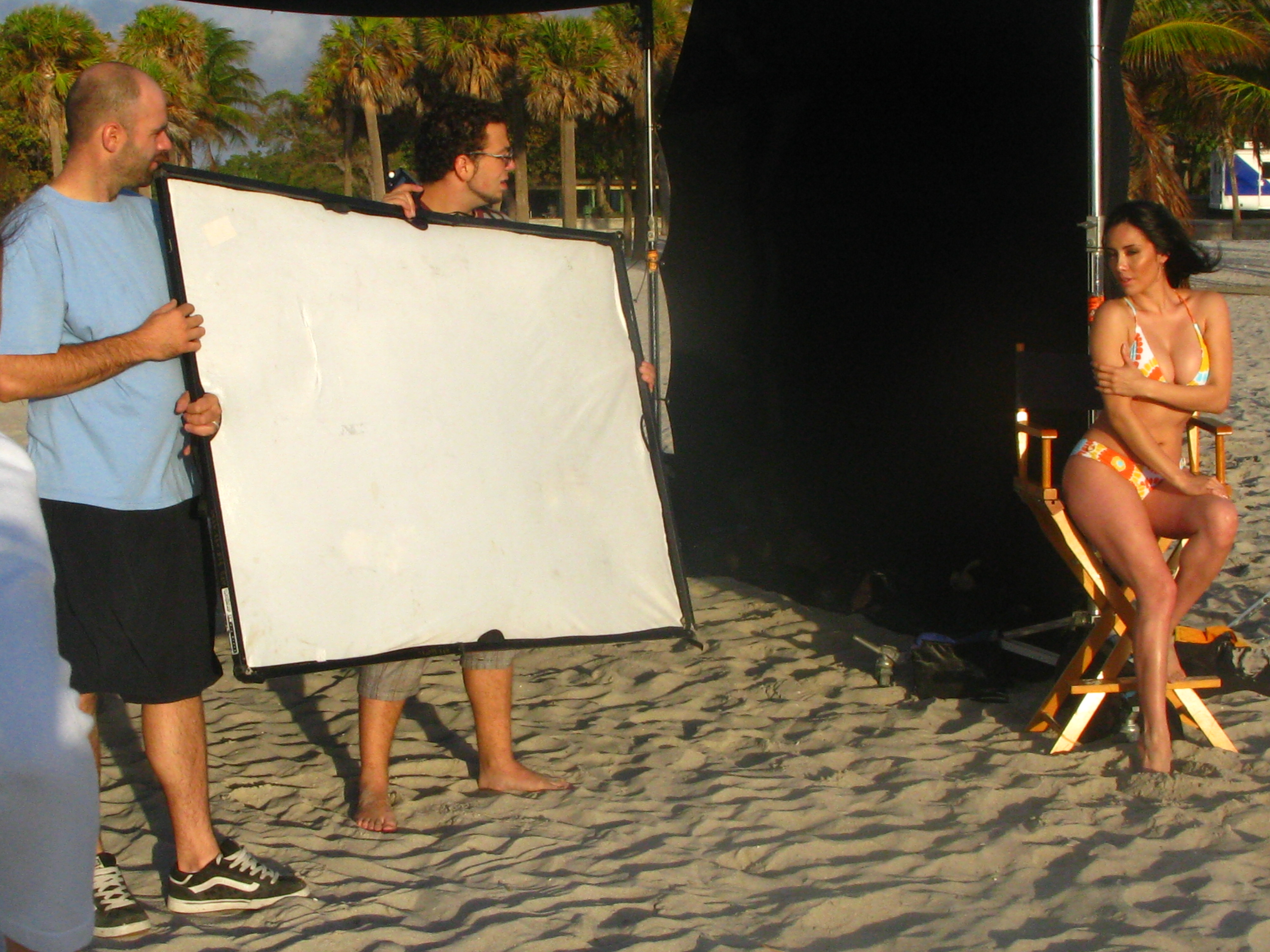 Professional photoshoot at the beach.